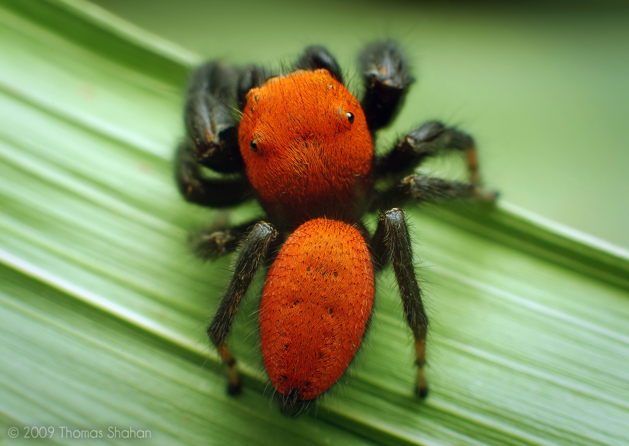 Phidippus apacheanus jumping spider I debated how to go about photographing this little guy as my usual "portrait" angles would deny his most prominent feature - the beautiful reddish-orange markings atop his cephalothorax and abdomen. I've never seen such vivid markings on a salticid before - he was really quite something to see when held up to the sunlight! Between the 2 specimens I found of this species last September, this guy had the most scales/hair left. The other male was in pretty rough shape and almost completely bald, so I let him go about his way - although I did relocate him to a safer spot than the heavily used sidewalk I found him wandering about on (I've seen 2 praying mantises that had been crushed by foot/bicycle traffic around the same area). I'm actually not entirely sure which species this guy is - I've seen images of Phidippus apacheanus and Phidippus cardinalis males that look almost identical. Complicating the matter even further - both species appear to be present in my area - so I can't really say confidently that this guy is indeed P. apacheanus. So, if anyone knows more about these two species / how to tell them apart - please enlighten me.